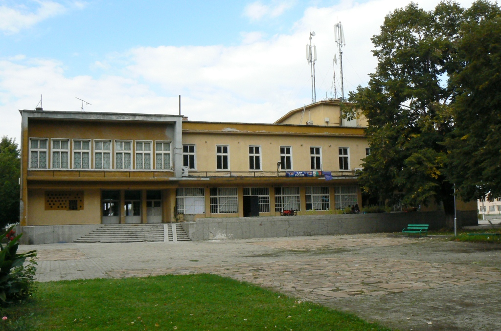 The mayor's office in village Yoakim Gruevo, Bulgaria